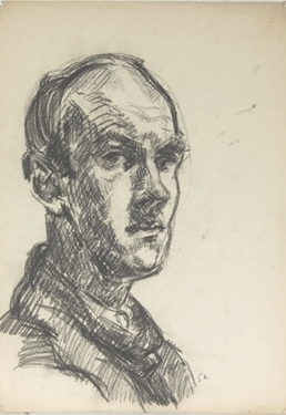 Günter Hildebrand, Self portrait